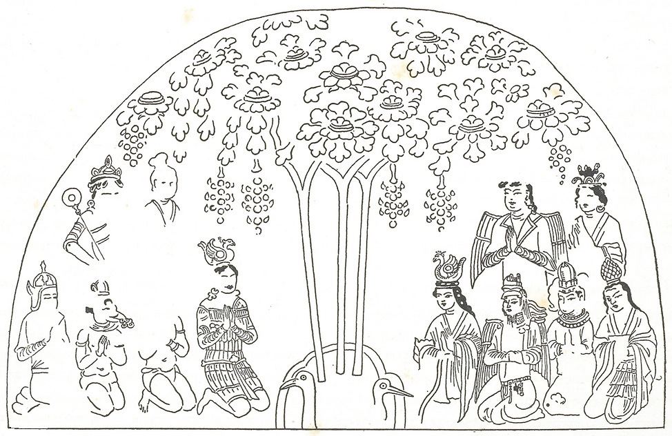 “Veneration of the Tree of Life”: Manichaeans worshiping the Tree of Life in the Realm of Light, from cave 38 (cave 25 by Albert Grünwedel) at Bezeklik Caves.